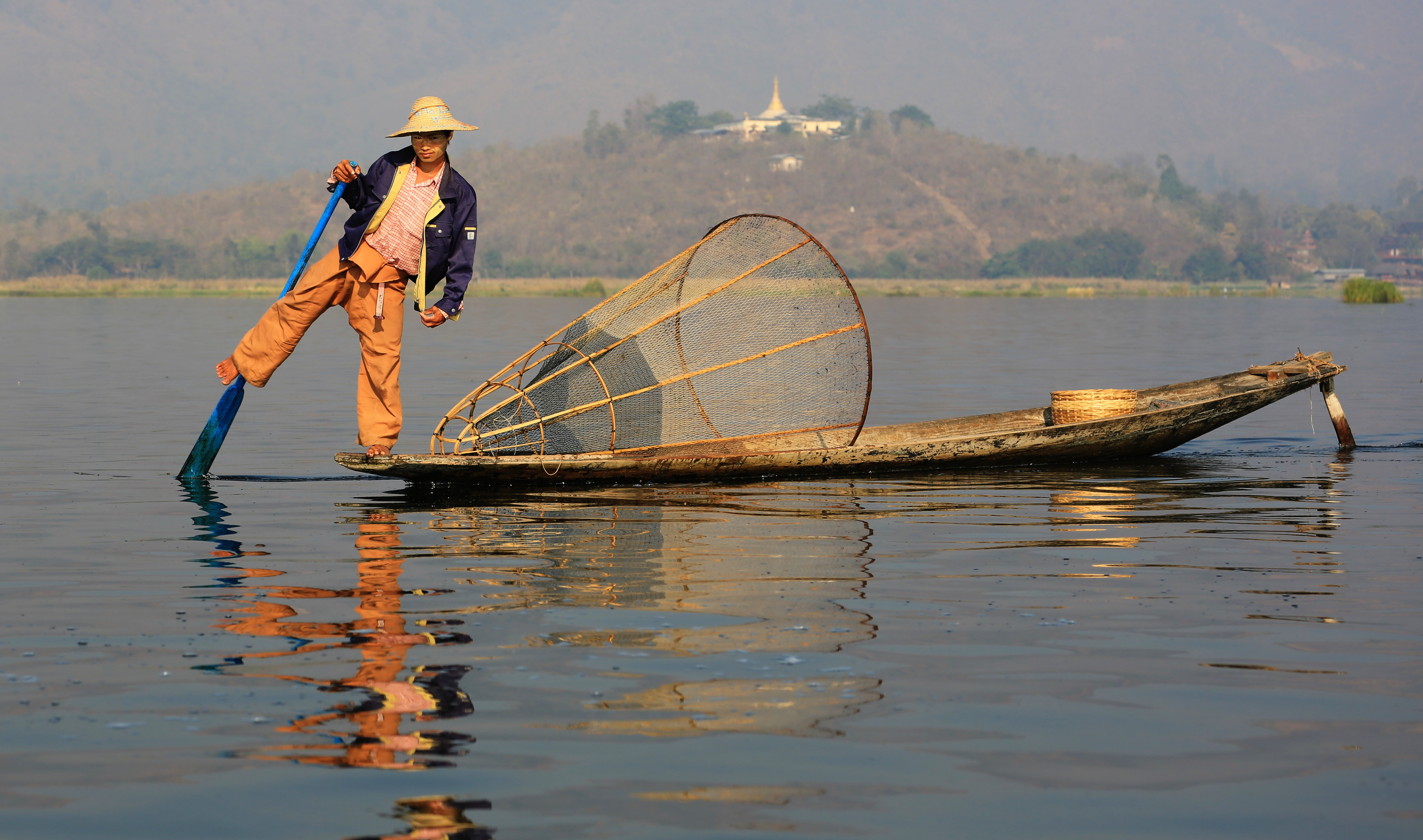 Fisher at Inle Lake. Buddhist temple in the background.